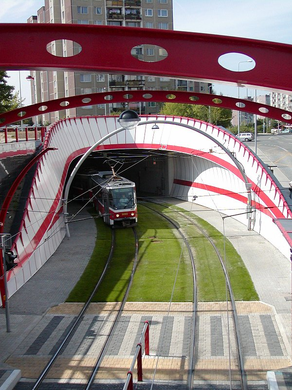 Tatra T6A5 tram on new Barrandov line in Prague.